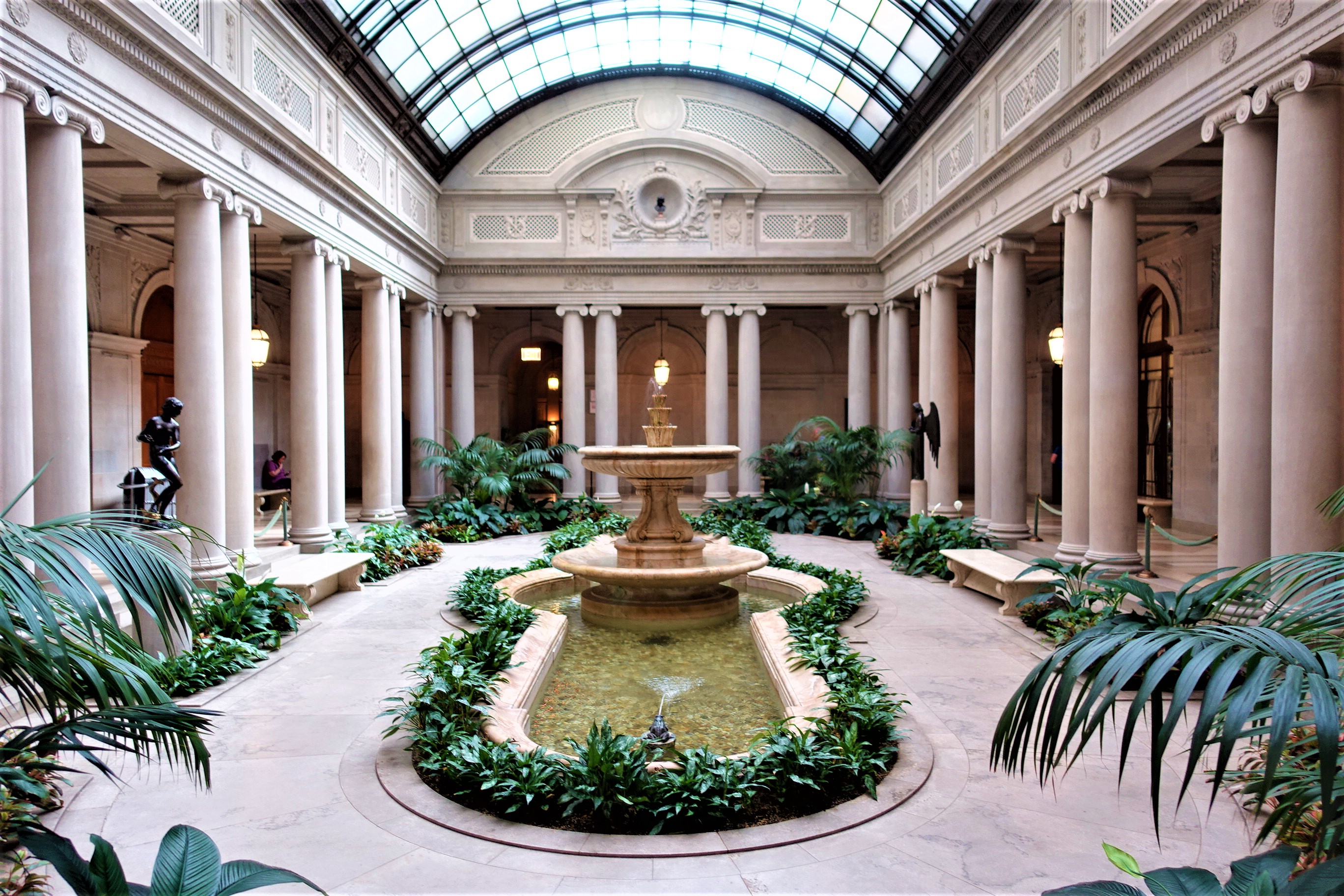 Frick Collection - - external 2